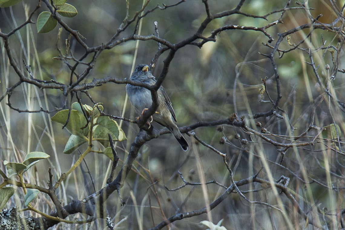 Band-tailed Sierra Finch (Phrygilus alaudinus), Ecuador